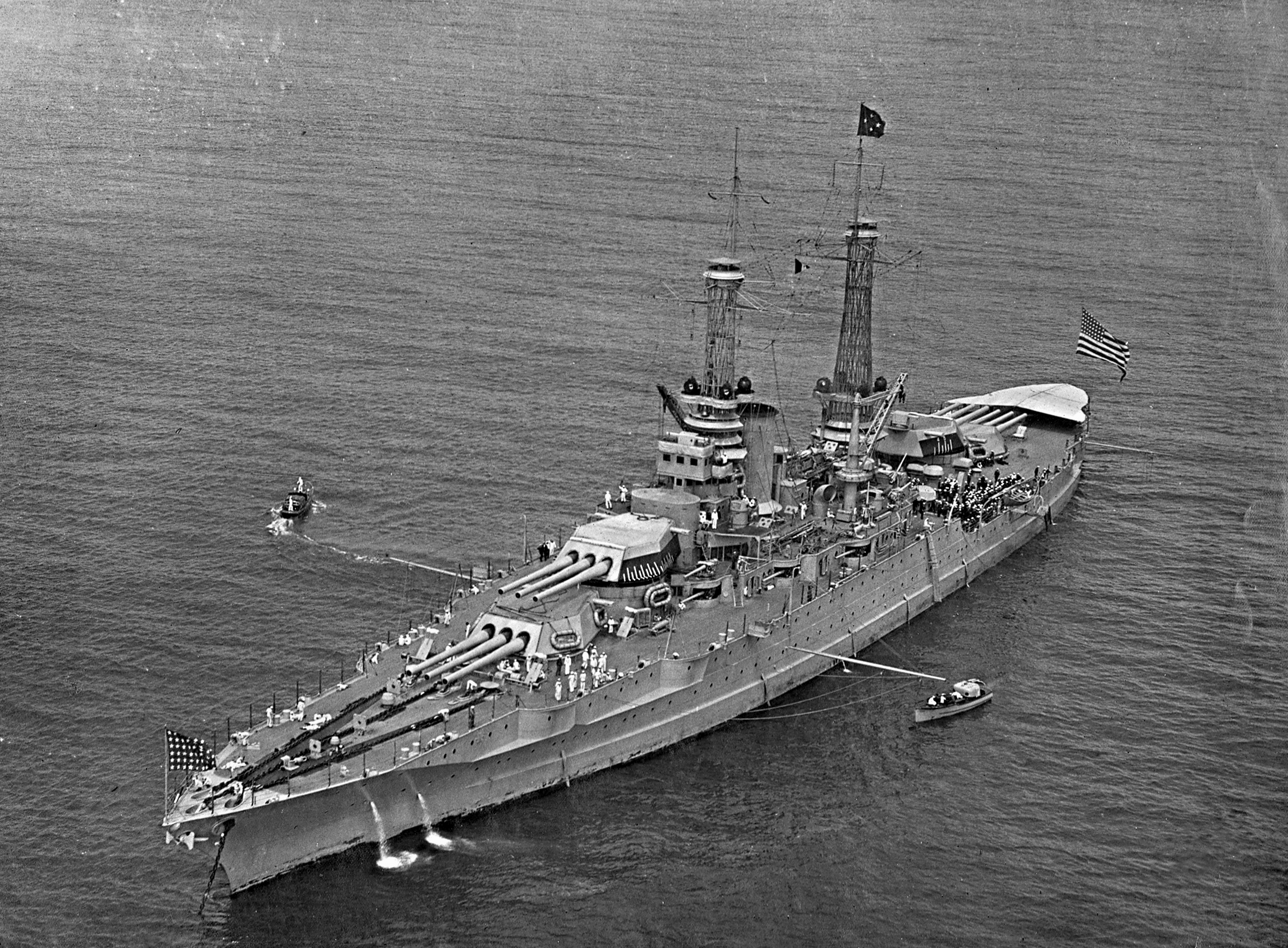 The U.S. Navy battleship USS New Mexico (BB-40) at anchor in 1920.